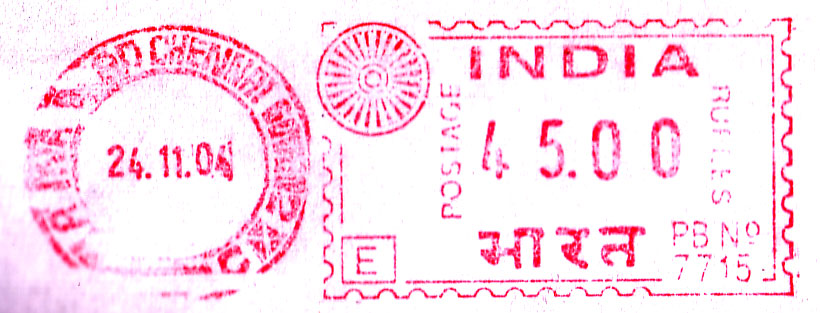 An Indian postage meter marking, 2004.